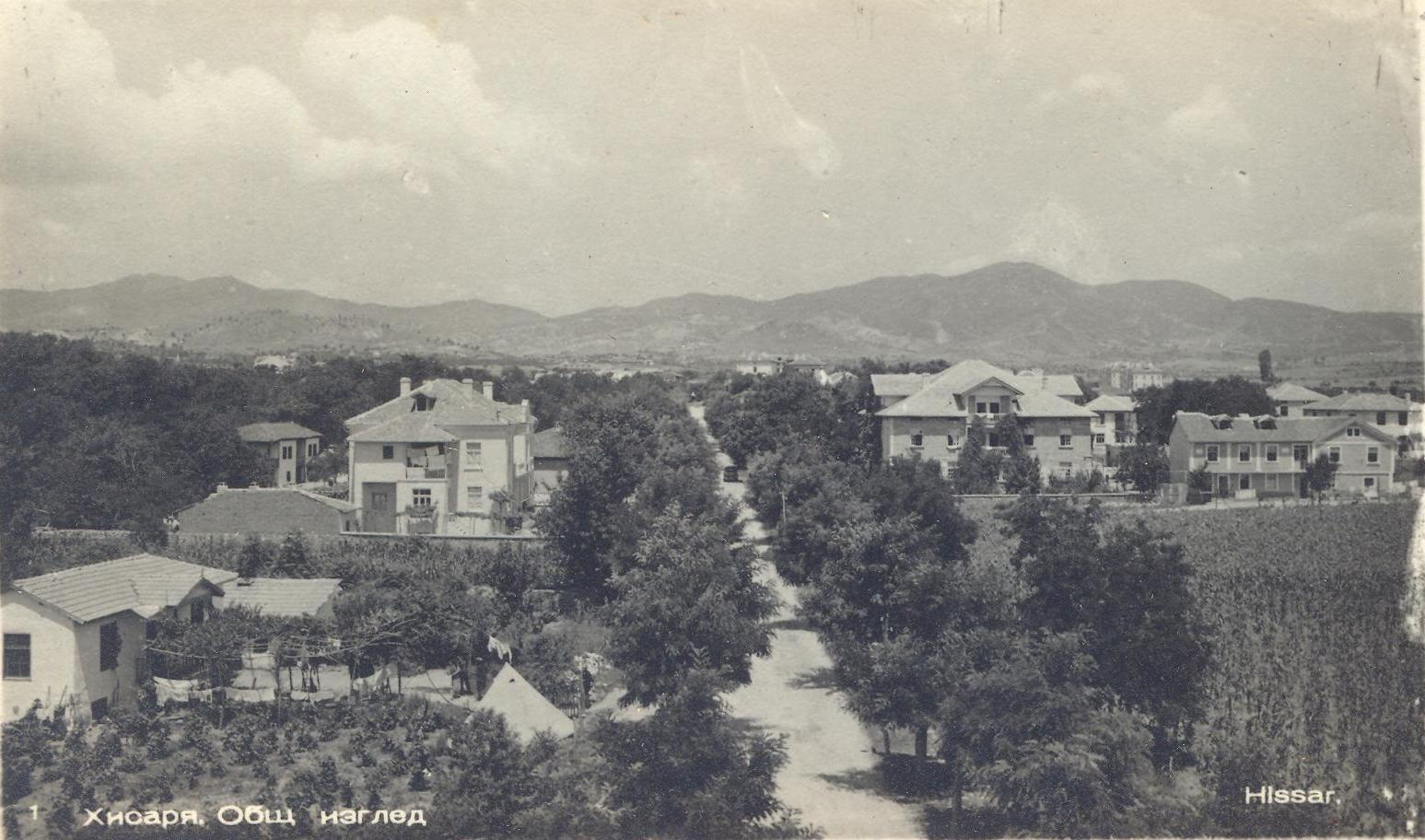 Hisarya, Bulgaria.